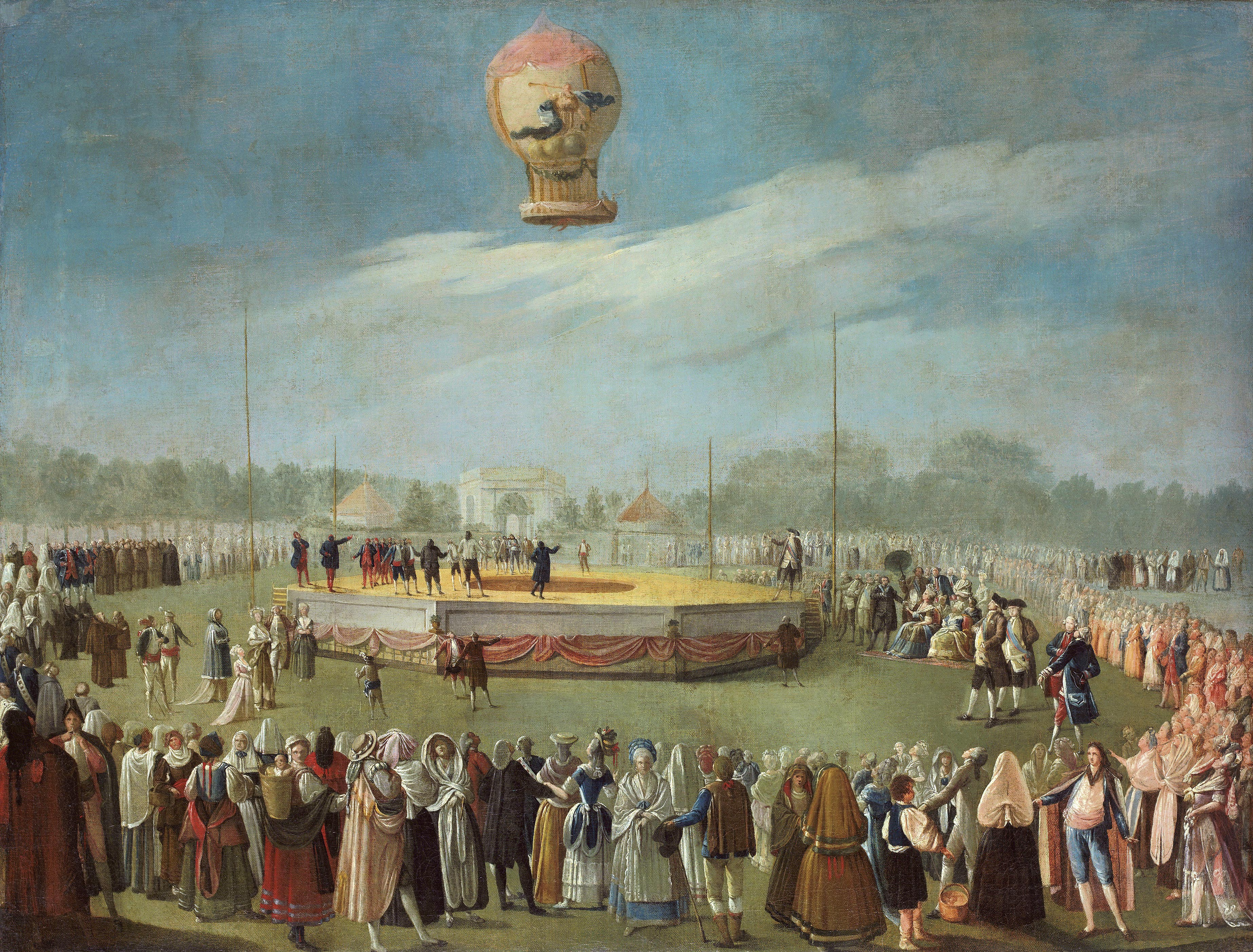 Ascent of the Balloon in the Presence of Charles IV and his Court